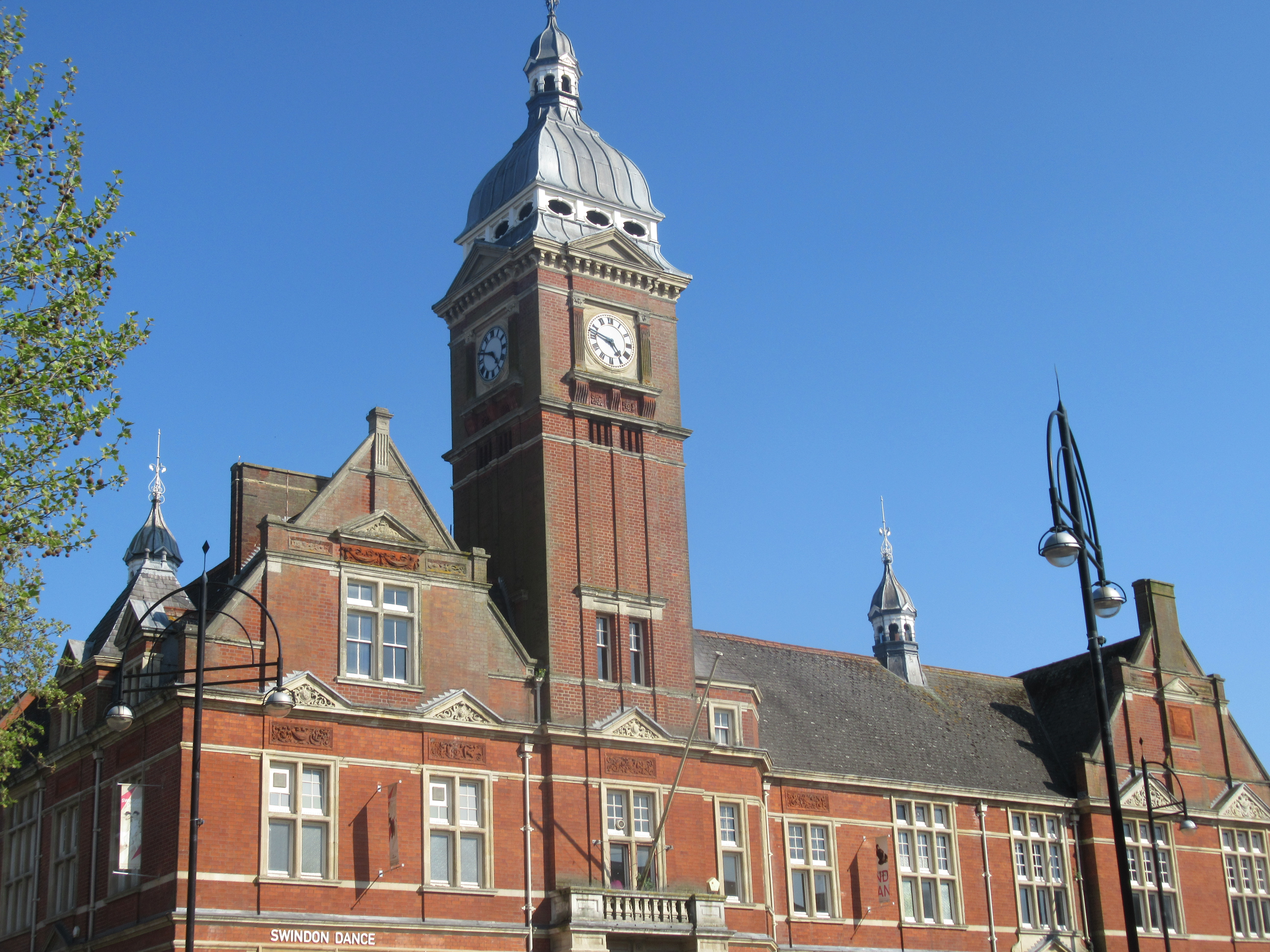 town hall in 2018